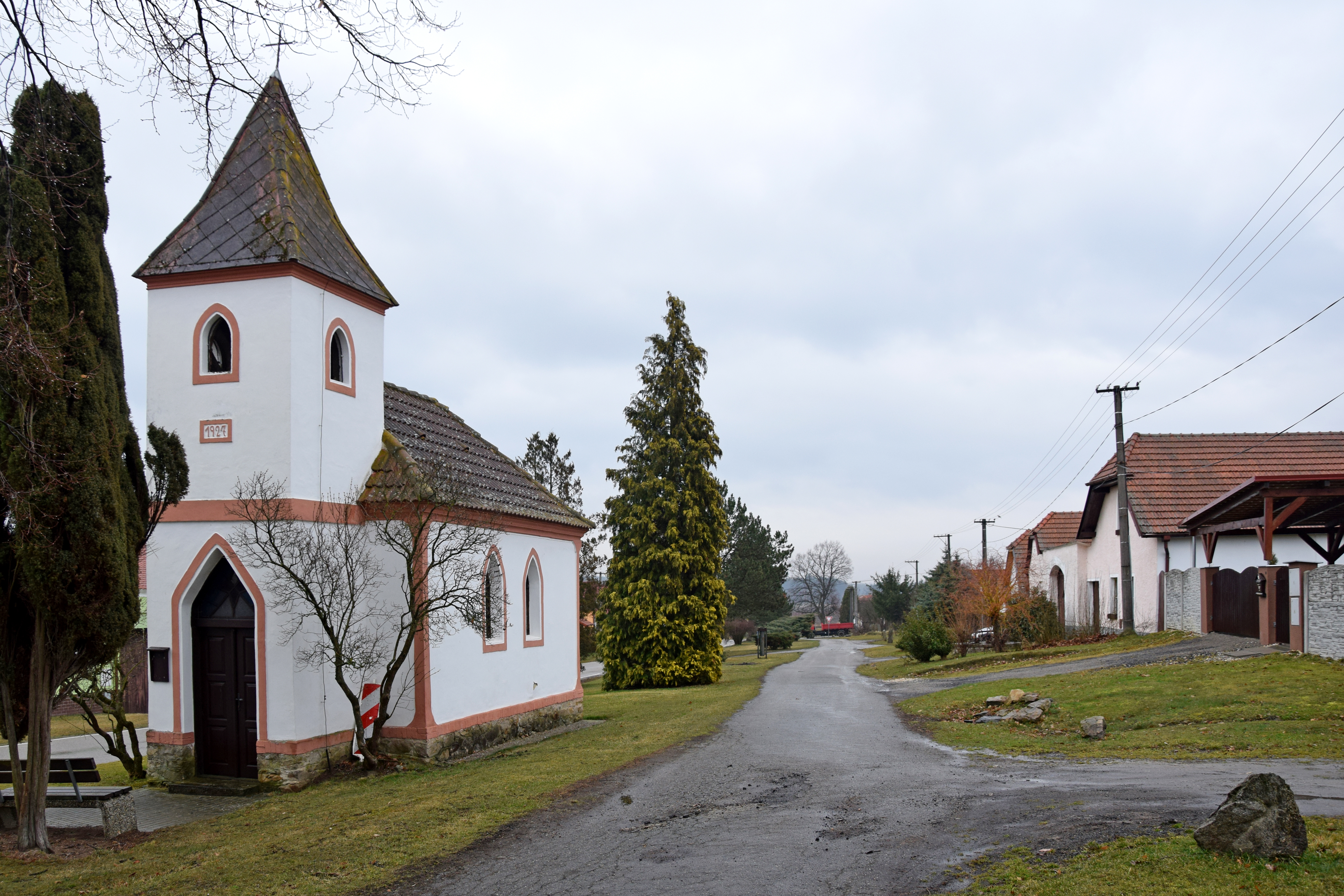 The Church of the Assumption of Virgin Mary in Tupesy, České Budějovice District, the Czech Republic.